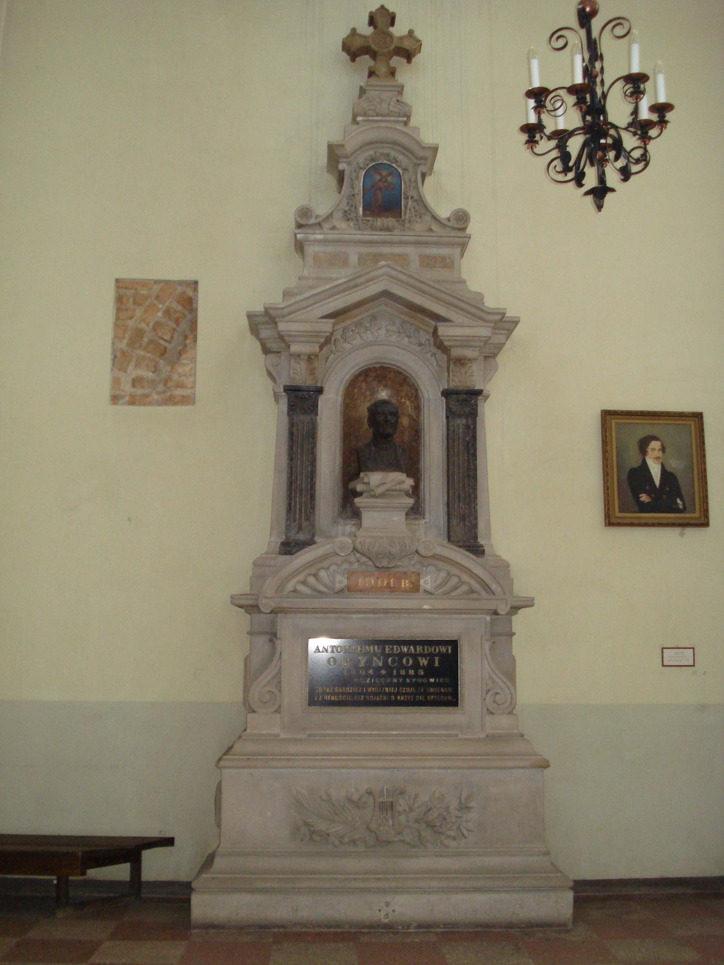 Odyniec Monument in the St. John Church in Vilnius